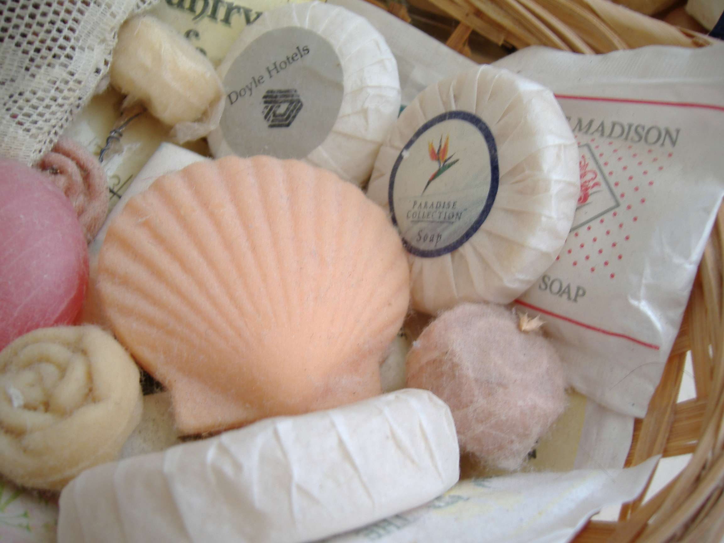 A collection of decorative soaps, commonly found in places such as hotel bathrooms.